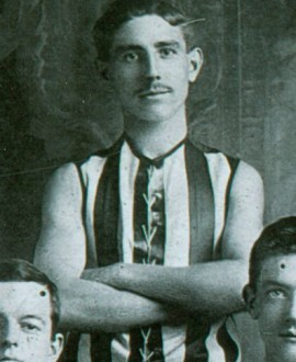 Photograph of Bill Punch in 1906.